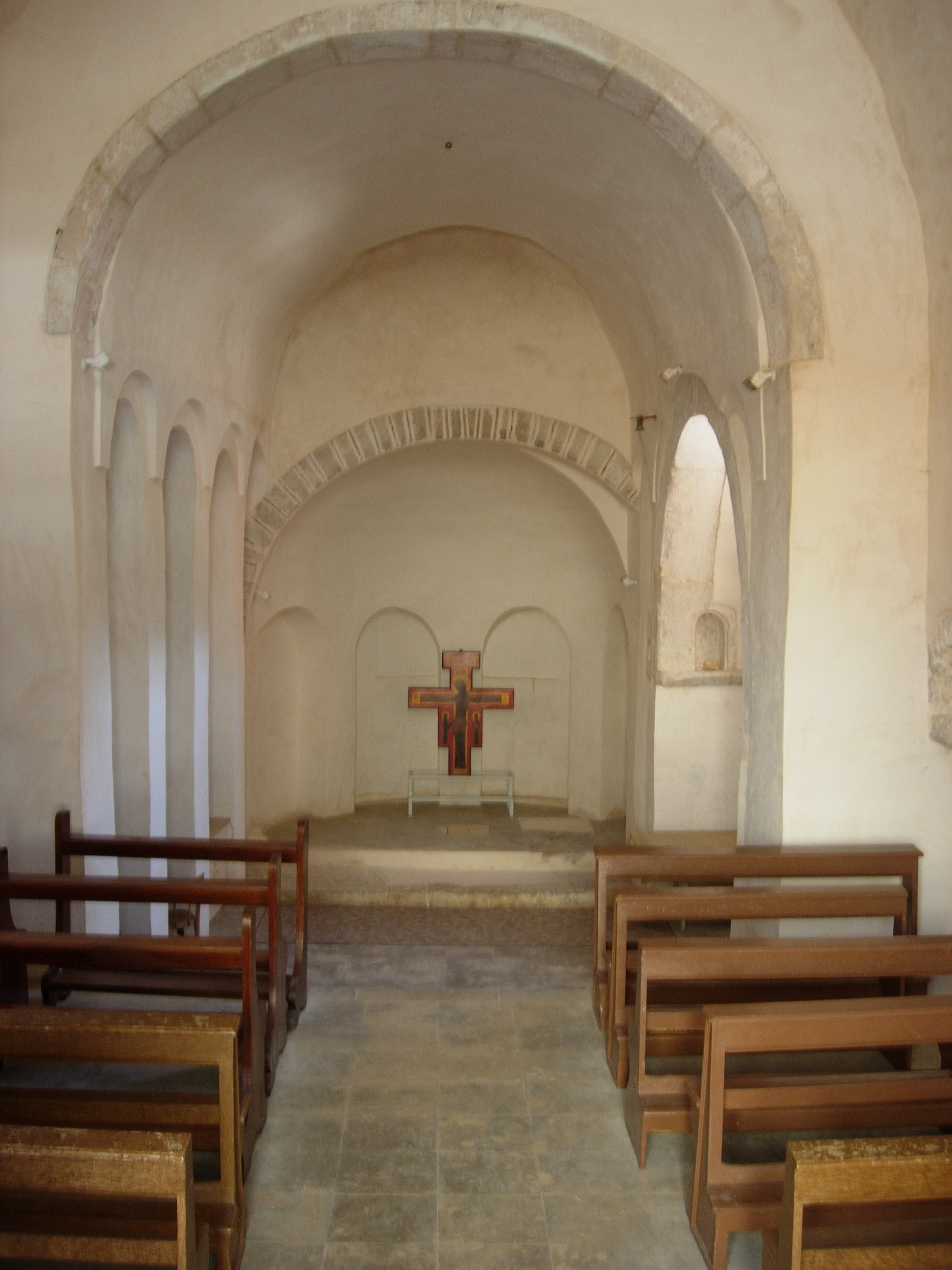 Church of St. John (Crkva Sv. Ivan) in Stari Grad.